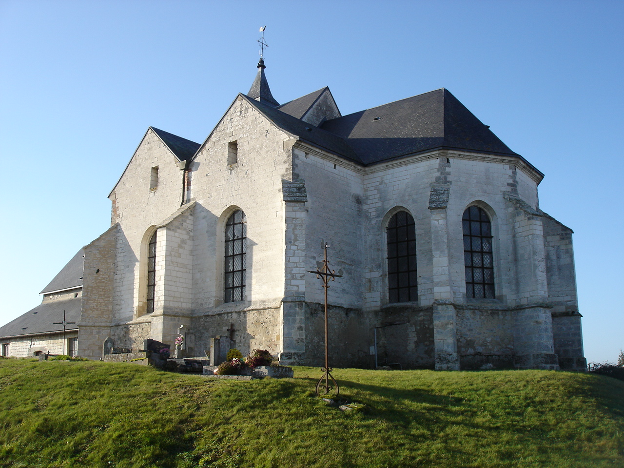 Saint Etienne church of Villeseneux, Marne , France